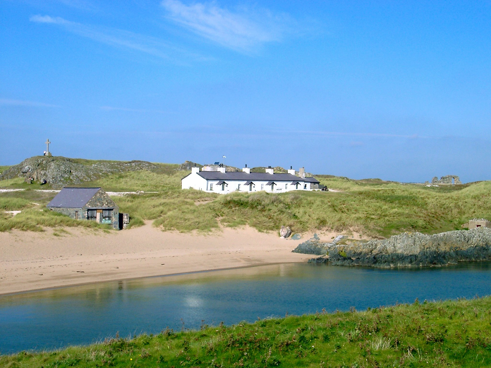 Pilots cottages on Llanddwyn. The pilots also manned the lifeboat station which was later run by the RNLI. A small light was established in 1823 by the Caernarfon Harbour Trustees as a navigational aid for entering the Menai Straits and Caernarfon harbour